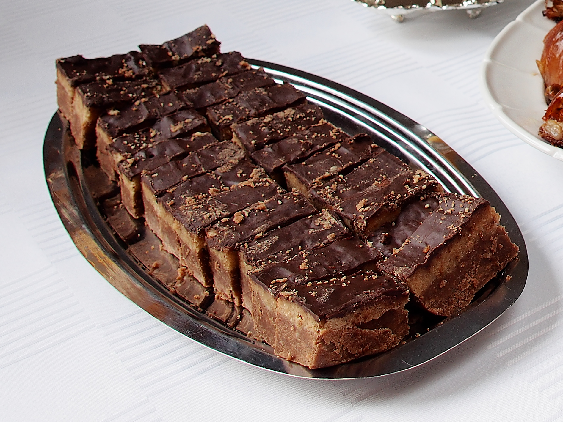 Bajadera sweets, part of Serbian Christmas meal. Српски (ћирилица): Колачи Бајадера, део српске Божићне трпезе.